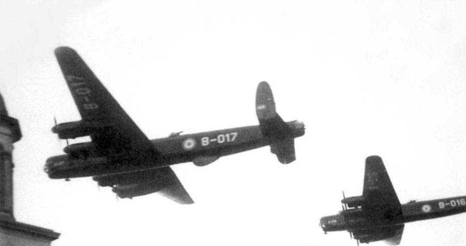 Two Avro Lincoln from the Argentina air force during an air parade.